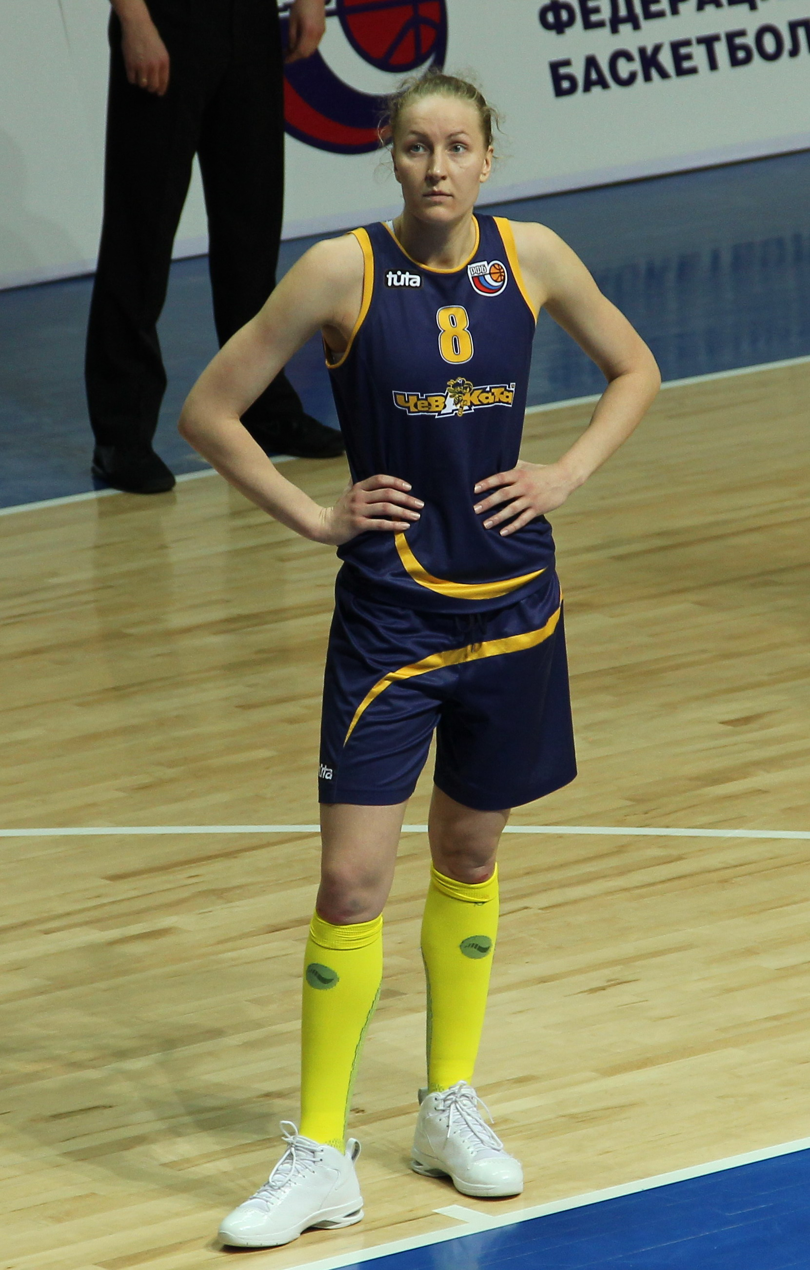 Russia, Vologda, Mariia Cherepanova in game «Vologda-Chevakata» vs «Spartak» (Saint Petersburg)